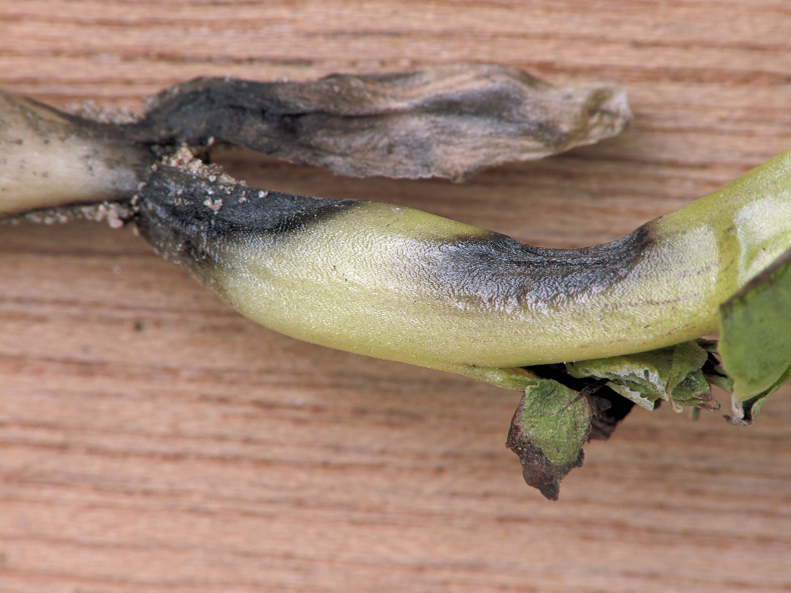 Vicia faba Cercospora zonata at Vicia faba